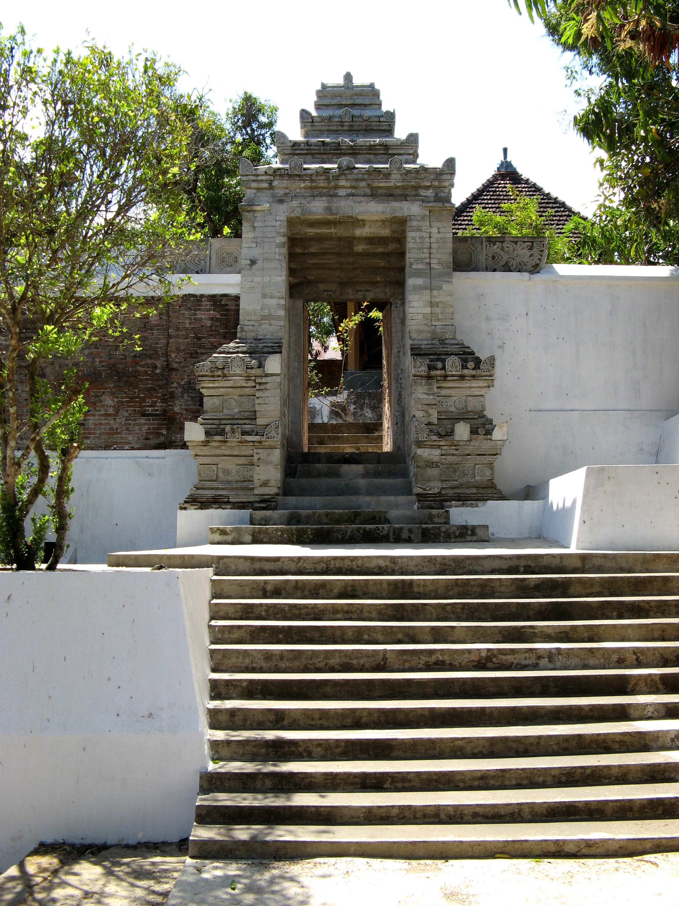 In 1755, the British split the Sultanate of Mataram into the two sultanates of Yogyakarta and Solo. The area of Imogiri that is reserved for the Yogyakarta mausolea is seen here. It lies to the right of the central, Mataram, mausolea. The similar area, reserved for the Solo mausolea, is to the left of the central area. Due to restrictions, the mausolea interiors and their surroundings cannot be photographed, however historical photographs taken during the Dutch colonial era have been taken inside the graveyards